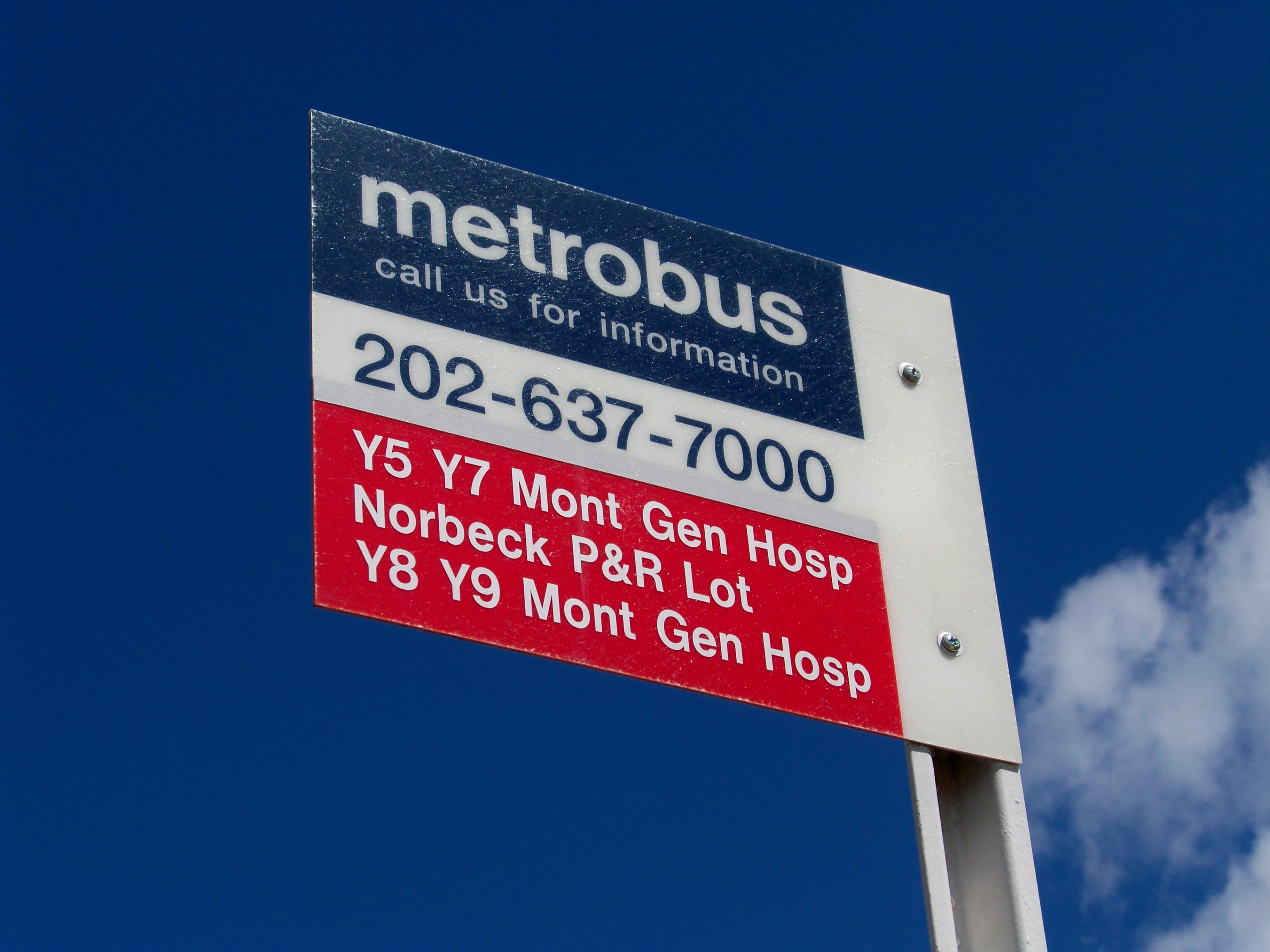 WMATA Metrobus stop marker for Y buses at Glenmont station in Silver Spring, Maryland.